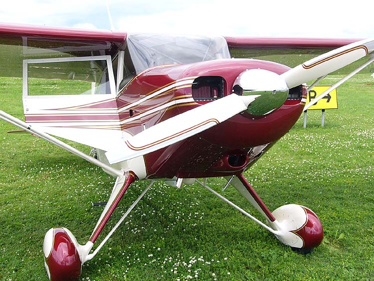 I took this photo at Kingston ON at the Short Wing Piper Convention on 06 July 2006